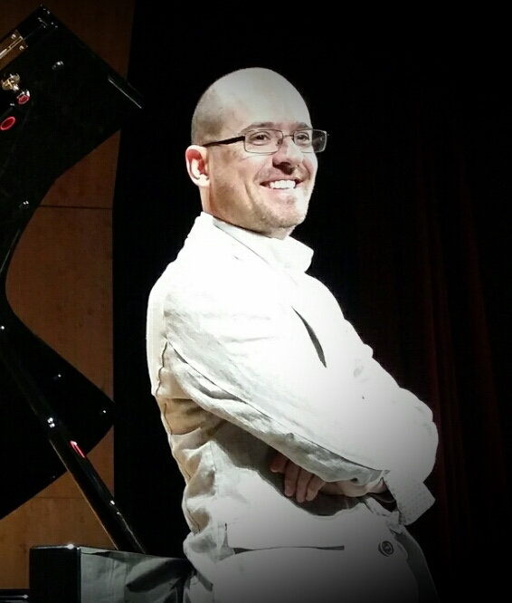 Photo of Roberto Plano